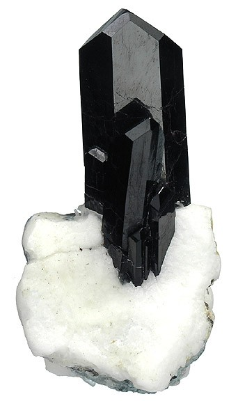 Neptunite Locality: Dallas Gem Mine (Benitoite Mine; Benitoite Gem Mine; Gem Mine), Dallas Gem Mine area, San Benito River headwaters area, New Idria District, Diablo Range, San Benito County, California, USA (Locality at ) Size: 3.2 x 1.7 x 1.3 cm. A superb Neptunite thumbnail featuring a group of highly lustrous, sharp, deep red color, prismatic crystals on a contrasting layer of massive white Natrolite on matrix.